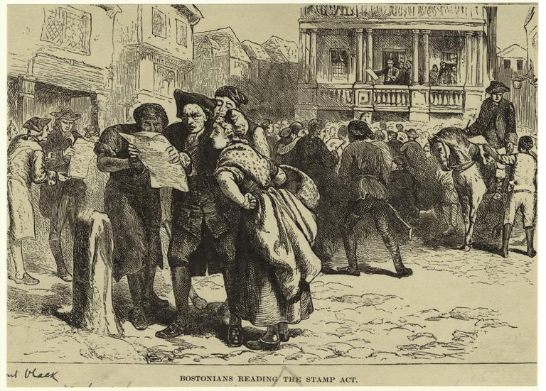 Bostonians reading Stamp Act, 1765.